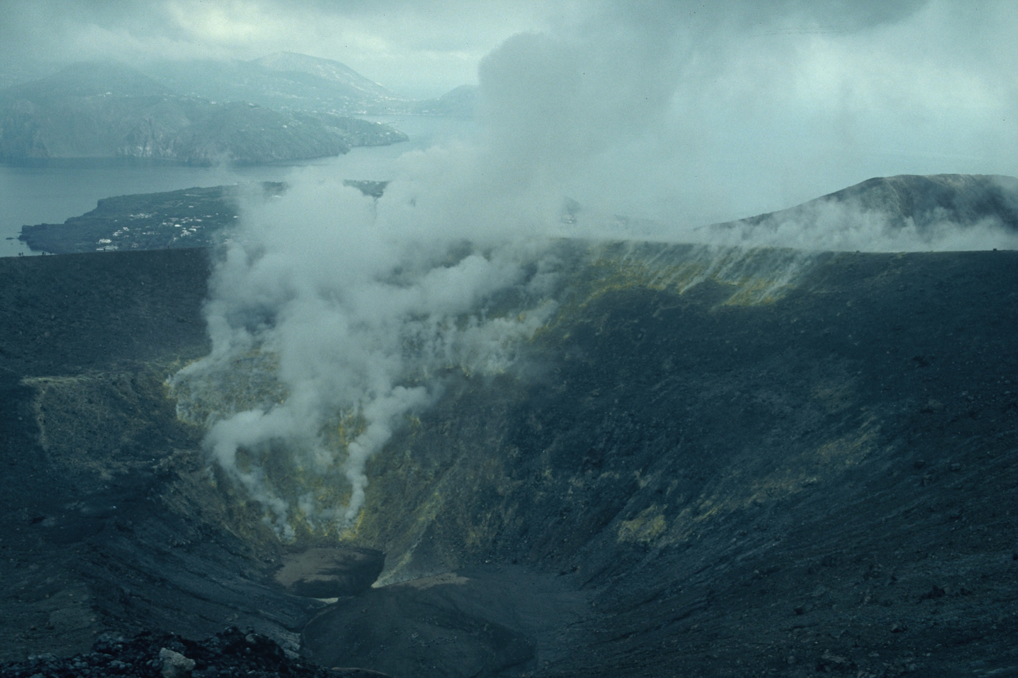 Vulcanic crater with fumaroles at Vulcano Island, Italy. In the background Lipari island